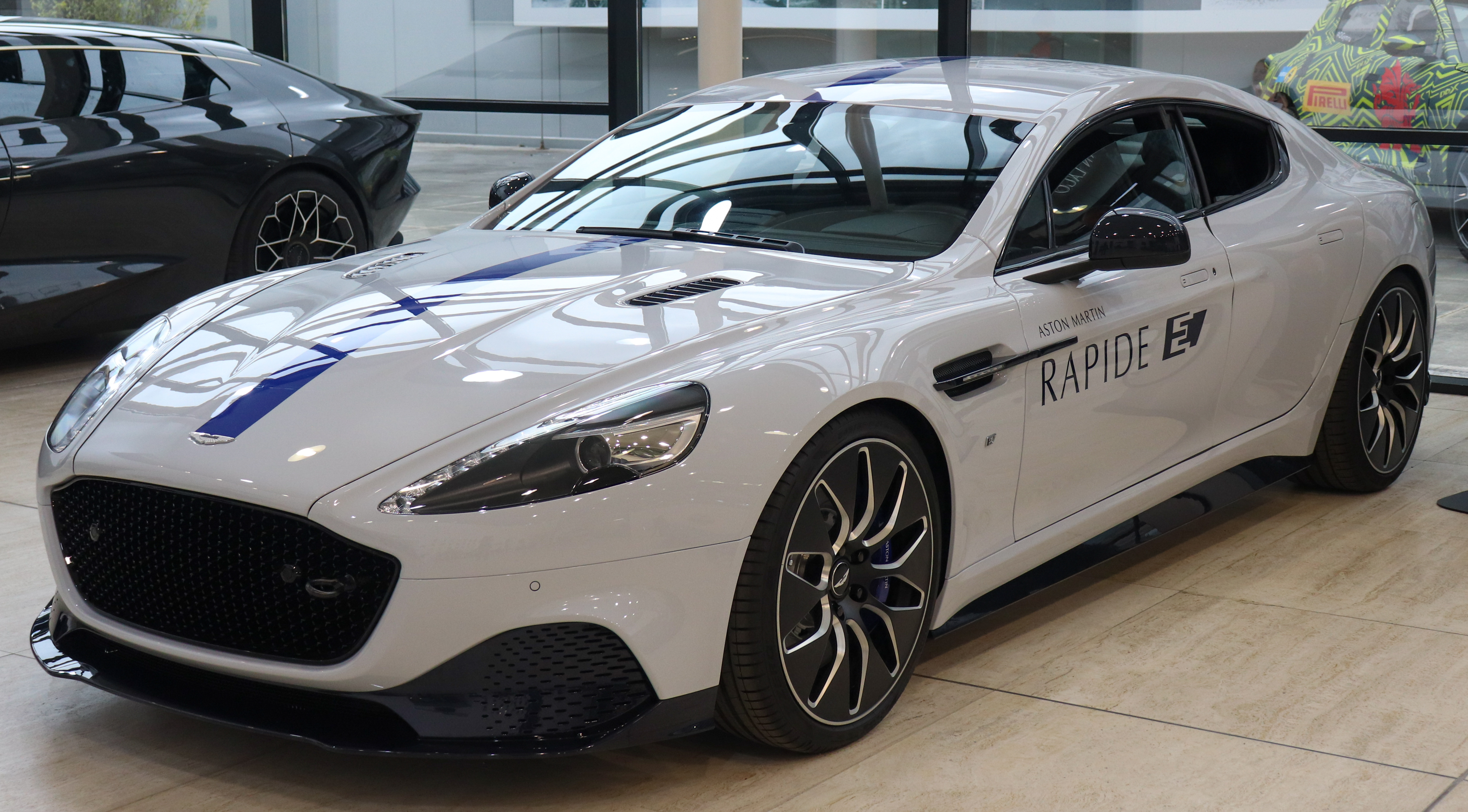 2019 Aston Martin RapidE Taken at the Aston Martin Lagonda factory, Gaydon